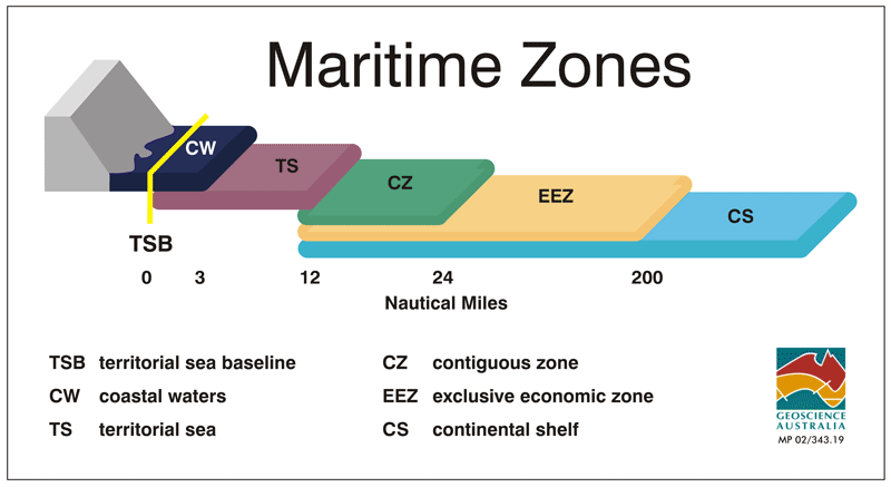 Graphic representation of maritime boundary zones